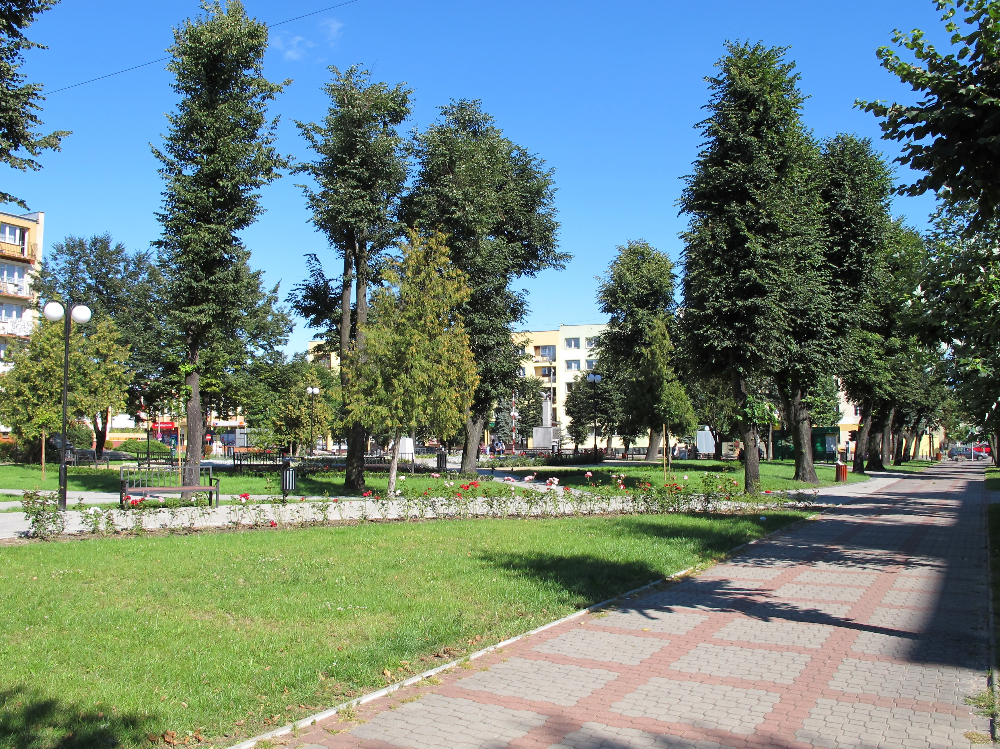 Izabella Branicka Square in Bielsk Podlaski